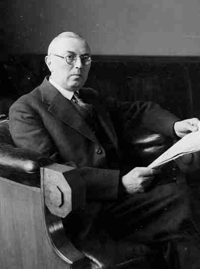 Wasyl Mudry, Ukrainian politician, member of Polish Sejm, photo as a vice-Speaker of Sejm 1935